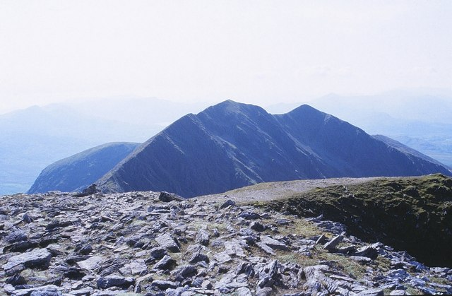 Macgillycuddy's Reeks: Cathair (Caher) At 1,001 metres above sea level and the centre one of the three on view here, Caher is the third highest peak in Ireland. The OSI 1:50,000 scale map gives altitudes of 983 and 975 metres to the unnamed summits on either side, to the left and right respectively. This view was taken from just over a kilometre away, from 1434274.